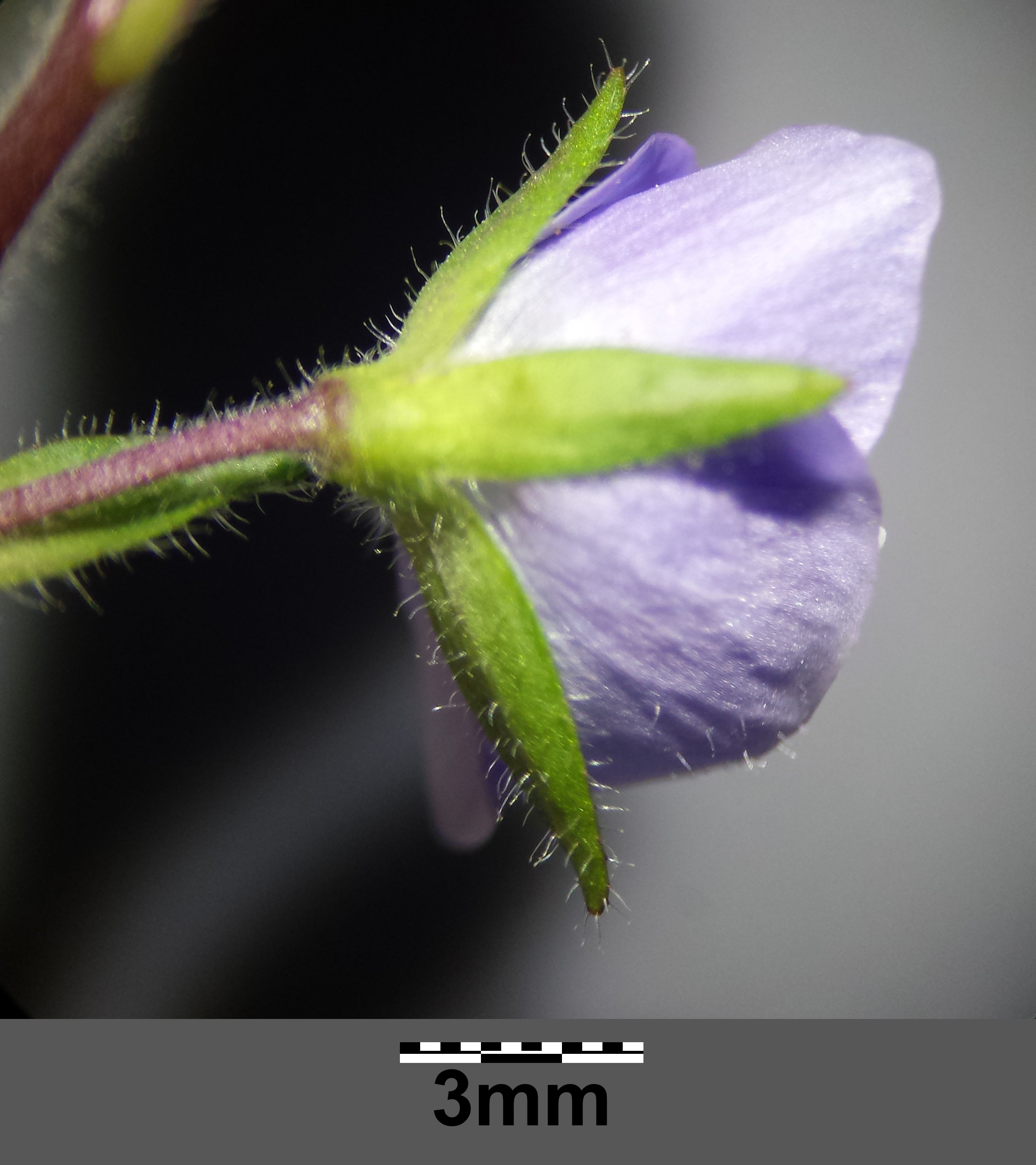 Flower/sepals Taxonym: Veronica chamaedrys subsp. chamaedrys ss Fischer et al. EfÖLS 2008 ISBN 978-3-85474-187-9 Location: Rohrwald, district Korneuburg, Lower Austria - ca. 250 m a.s.l. Habitat: dedicious forest